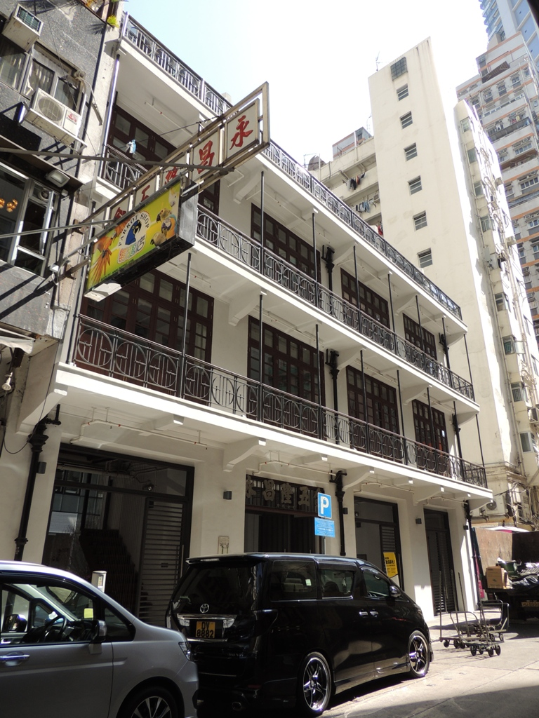 No. 1,3,5,7,9,11 Mallory Street, Wan Chai